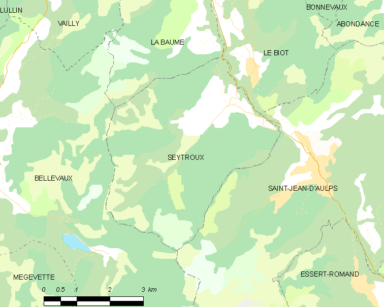 Map of French municipality Seytroux